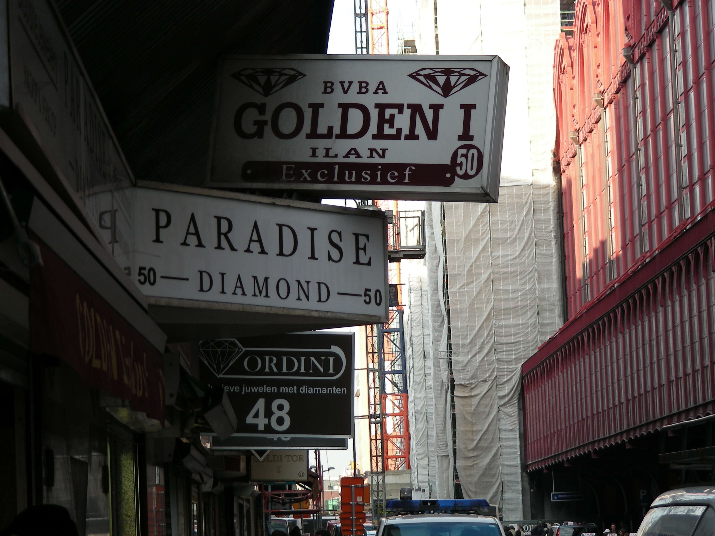 Antwerp is the diamond capital of the world. No wonder that there are diamond and jewellery shops in the Diamond District wherever you go.